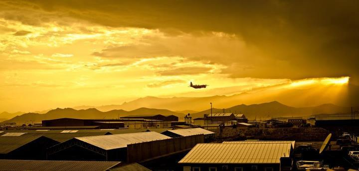 Breaking dusk, a C-130 takes off from Shindand Air Base. (Photo ID: 635809)